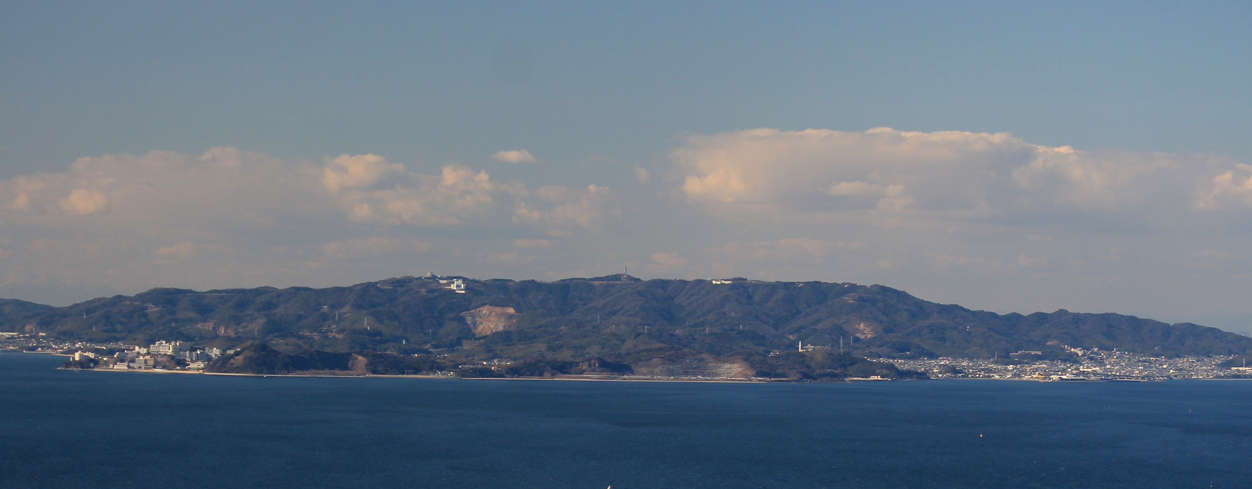 Mount Sangane seen from Mount Zao in Aichi prefecture, Japan.